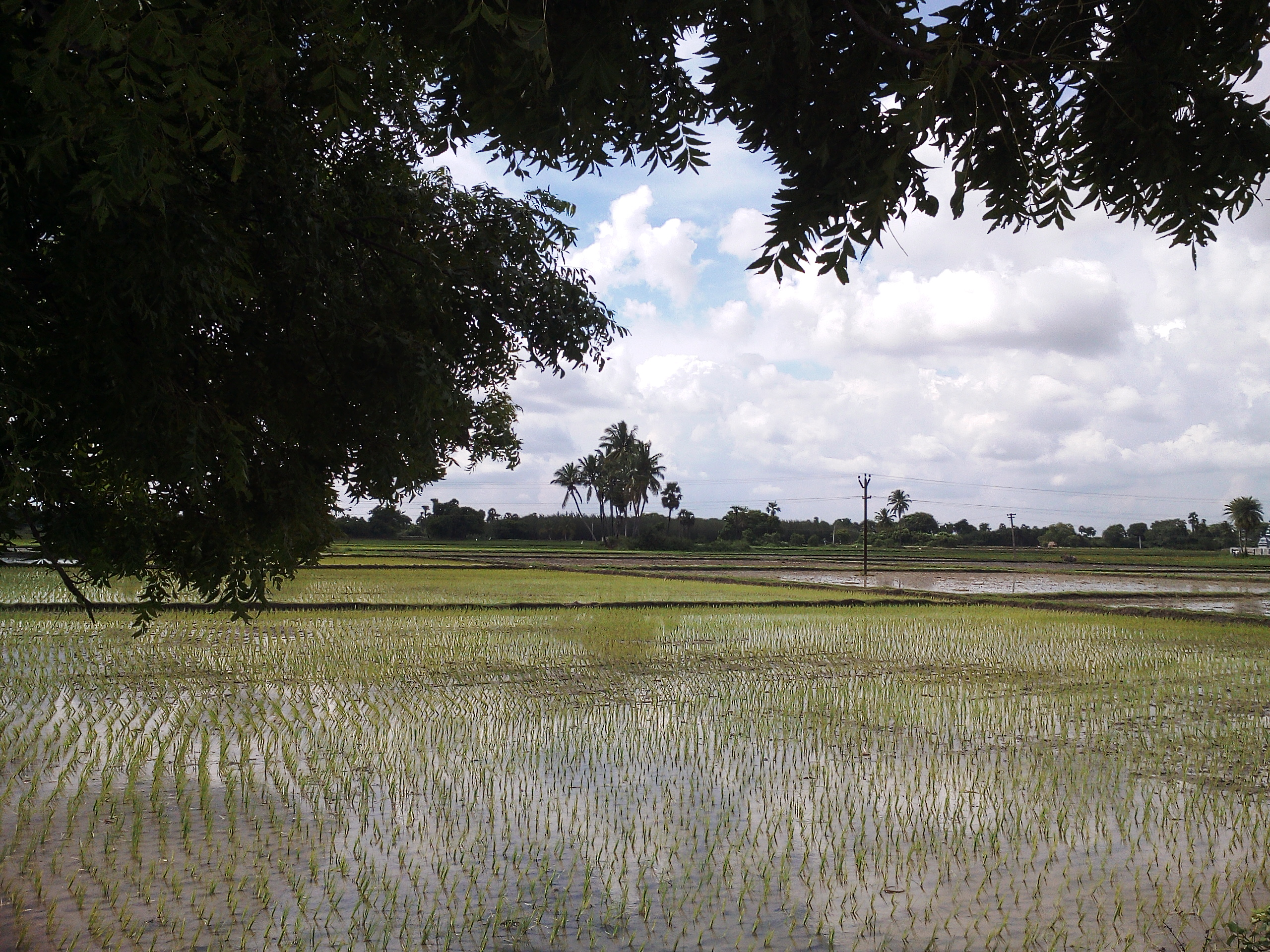 An image of a field of Tamil Nadu